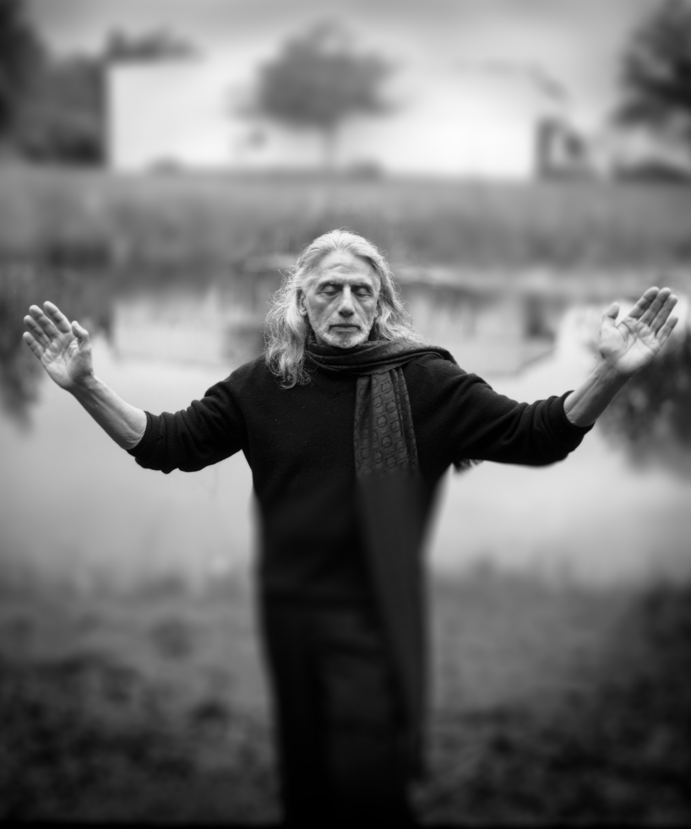 This is a black and white portrait of Jamali from 2018.